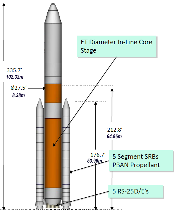 NASA's Space Launch System (SLS) reference vehicle design baseline.